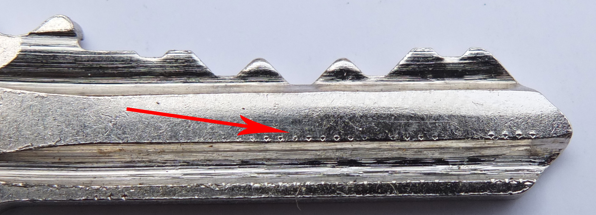 Key fro which we can see that it as been duplicated thanks to a locksmith machine